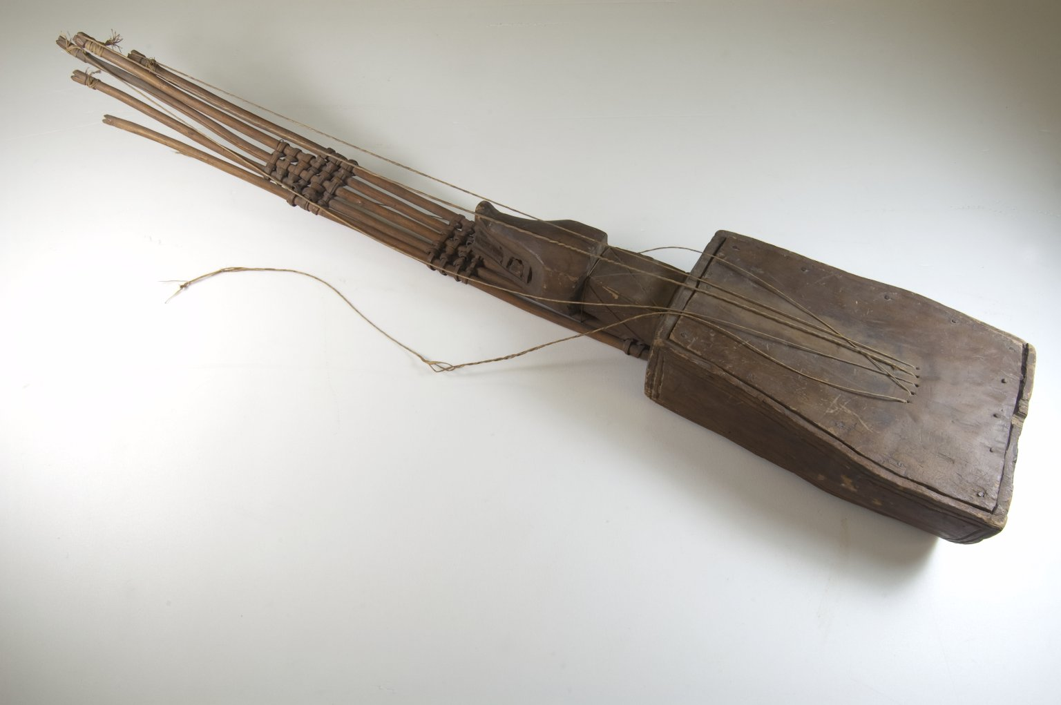 Rectangular wooden resonator which has a boars head at one end. On the underside of the head, the is a series of 5 holes arranged in a horizontal line. Which accomicates a 5 arced cane attachment both pieces are still together. 5 fiber strings are still attached, 2 are still in place. Condition: Wood worn. 3 strings are broken.